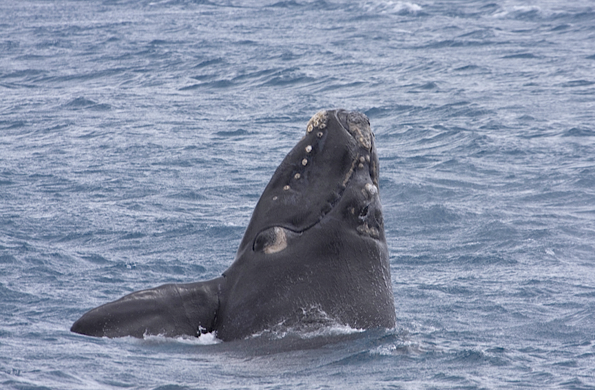 There are only about 7,000 S. Right Whales in the world, and of course, only found in the Southern Hemisphere. This calf and its mother were lounging and playing just offshore...